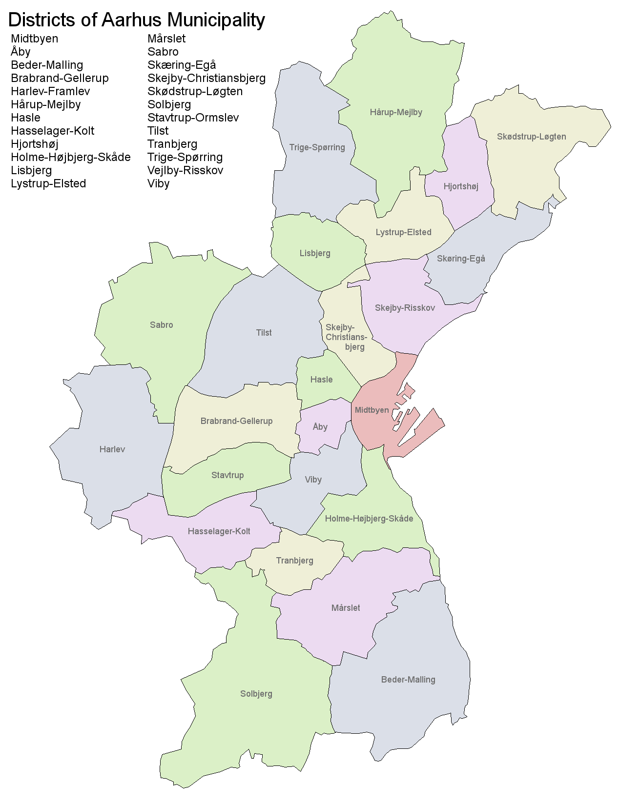 Districts of Aarhus Municipality, Denmark w. English titles Danish: Lokalsamfund i Aarhus Kommune, Danmark m. Engelse titler Data based on Aarhus Municipality atlas and department of district information. Mapping data maintained by Geodanmark in cooperation with the Association of Danish Municipalities. All rights granted for worldwide public use, copying and transformation. All rights granted for worldwide public use, copying and transformation. (pdf)